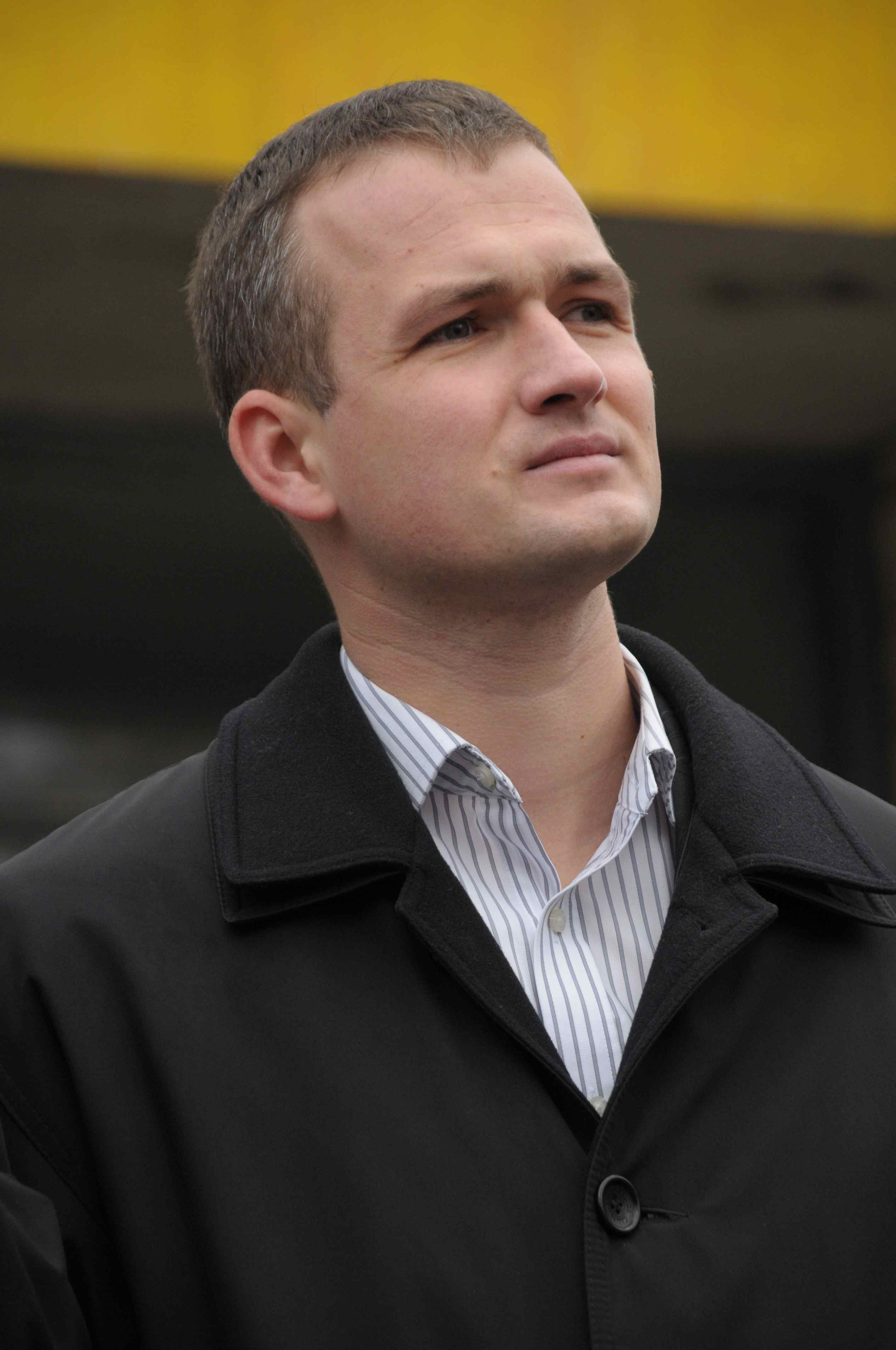 Yuriy Levchenko, Ukrainian politician and activist